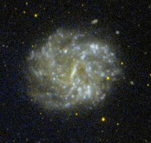 GALEX (ultraviolet) image of NGC 5068.